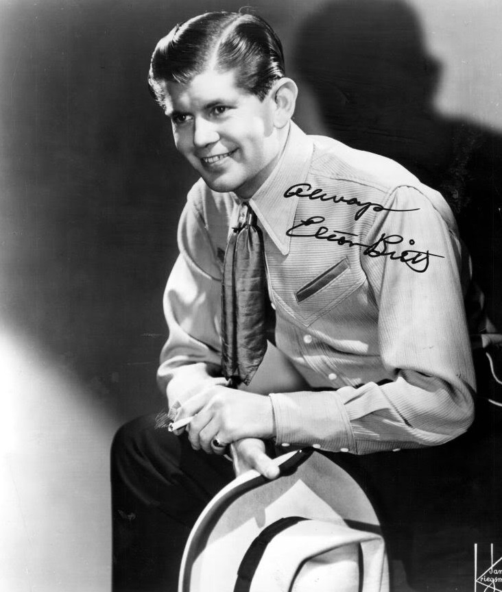 Publicity photo of singer, songwriter and musician Elton Britt.